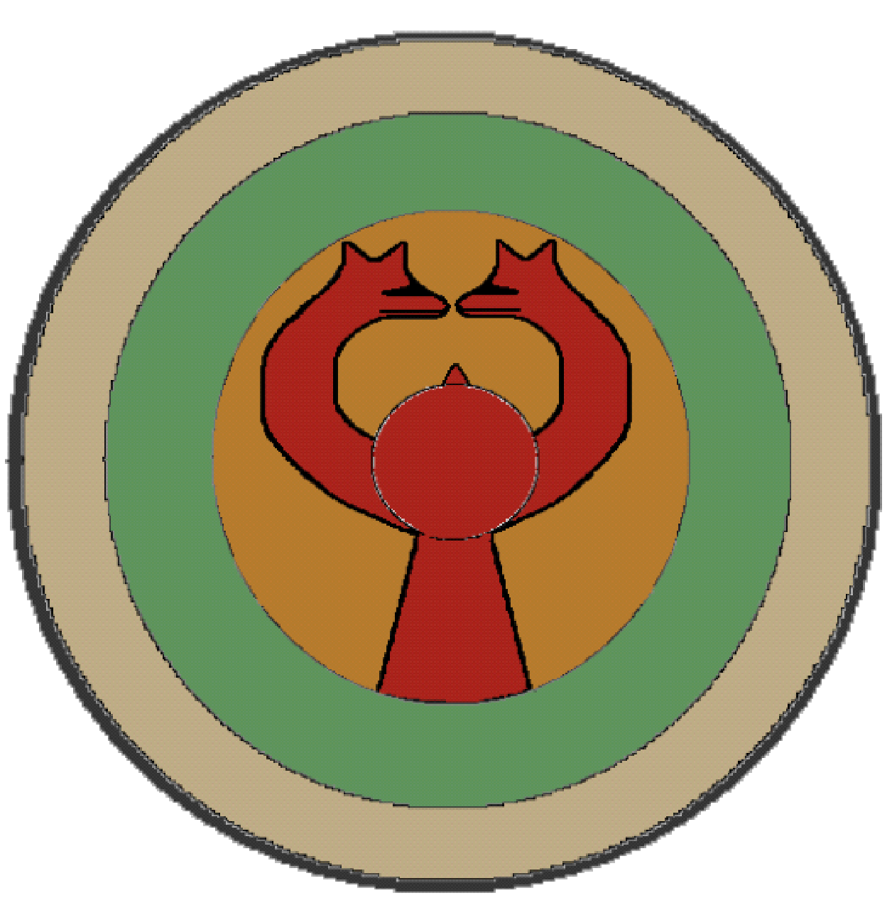 Shield pattern o.t. The Sagittarii nervi is one of the auxilia palatina units on the Magister Peditum's infantry list; it is assigned to the Comes Hispenias (Parisian Manuscript), Notitia Dignitatum, 5th century.